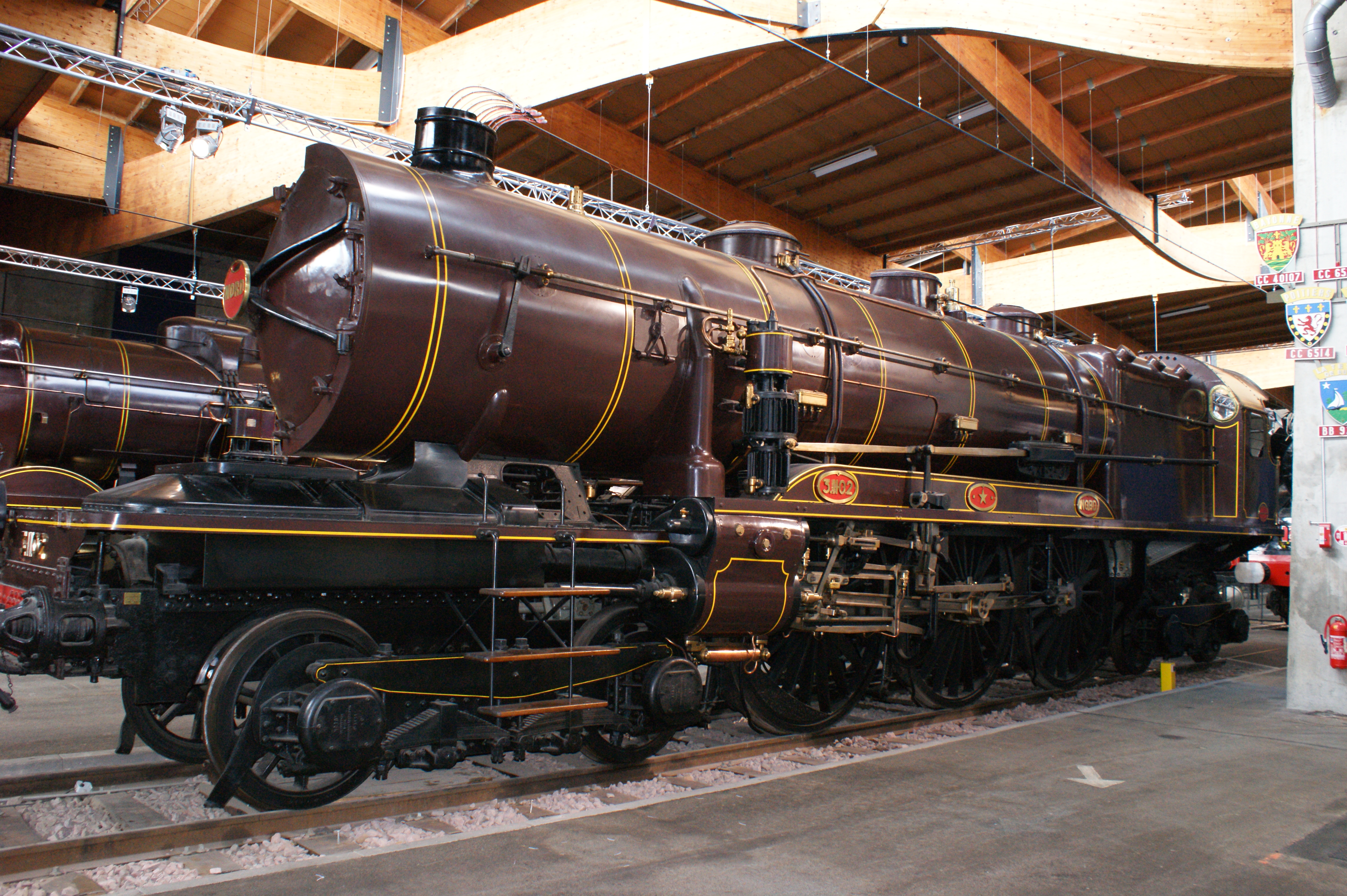 Nord de Glehn-du Bousquet 4-6-4 No.3.1102 (Nord La Chappelle works 1911). One of two experimental Baltics built with Du Temple water tube boilers built by Schneider (later replaced with conventional ones) and many other advanced features. Highly innovative locomotives - but they were failures and 3.1102 was withdrawn in 1937 and sectioned for the "Arts et Techniques" in Paris. 03/09. Despite their faults, they were undoubtedly very imposing engines.